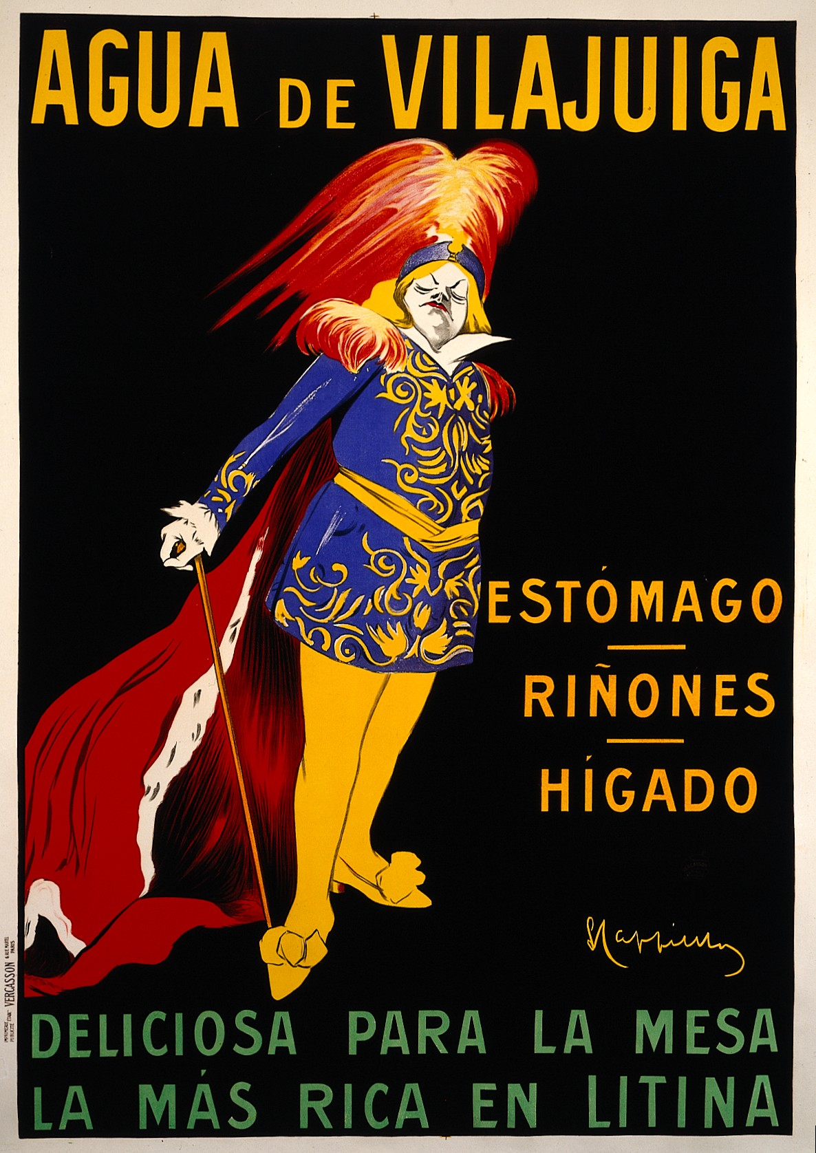 A man in theatrical costume advertising Vilajuiga mineral water. Colour lithograph by L. Cappiello, ca. 1925. Iconographic Collections Keywords: Leonetto Cappiello; Leonetto Cappiello